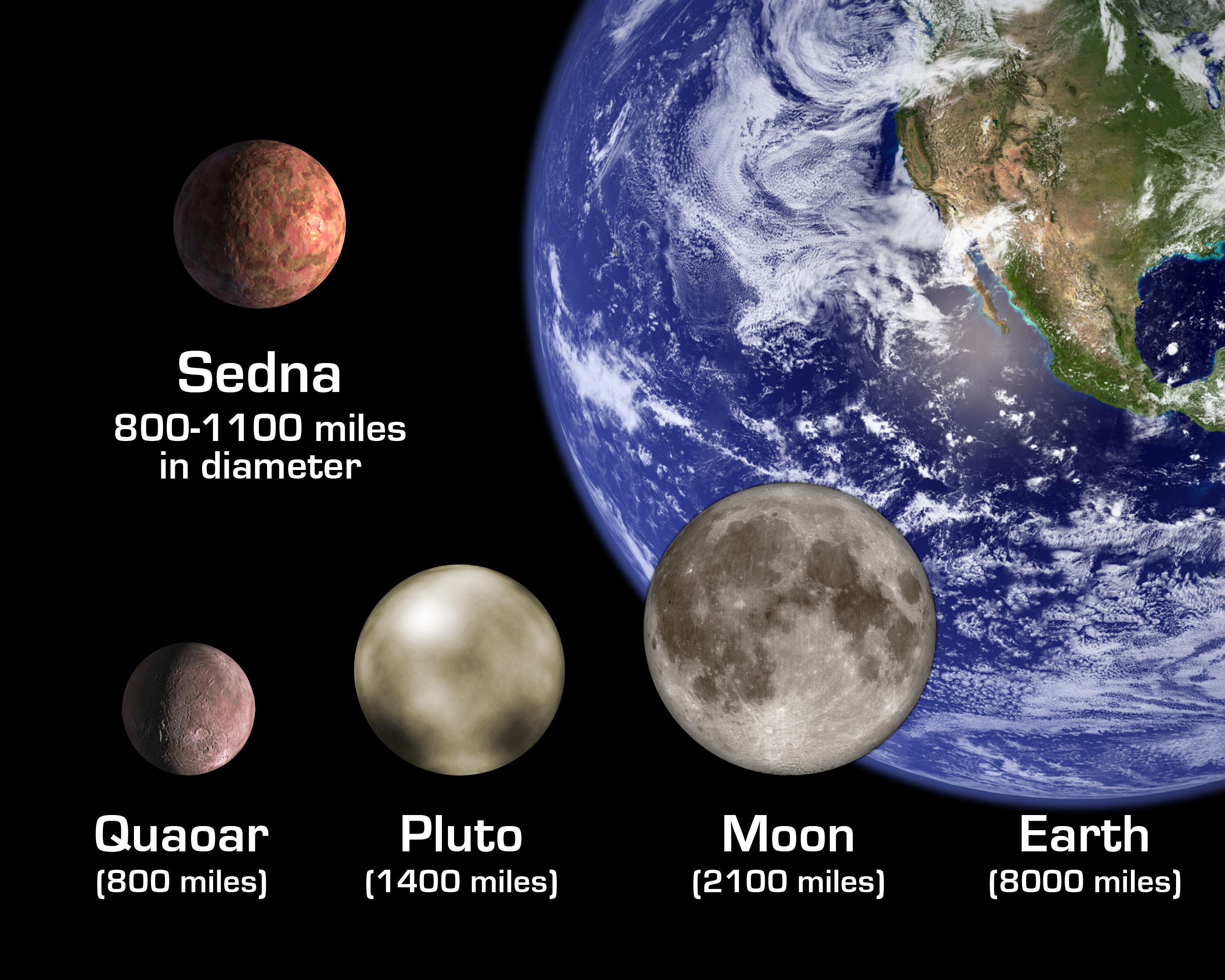 This now obsolete 2004 artist's rendition shows the then-newly discovered planet-like object, dubbed "Sedna," in relation to other bodies in the solar system, including Earth and the Moon; Pluto; and Quaoar. (Quaoar is now known to be roughly the size of dwarf planet Ceres. But between 2002 and 2004, Quaoar was the largest known Trans-Neptunian object other than Pluto and Pluto's moon Charon.) The diameter of Sedna is roughly three-quarters that of Pluto, but notably larger than Quaoar.